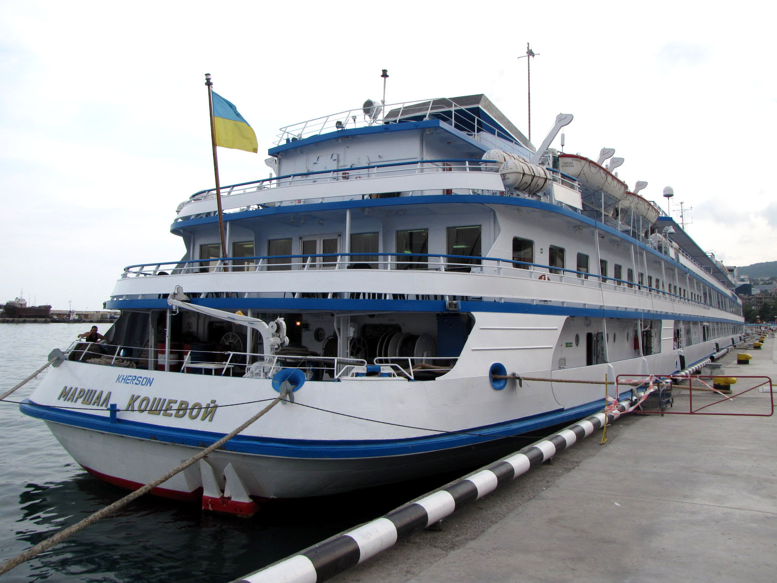 River cruise ship Marshal Koshevoy at Quay in Yalta